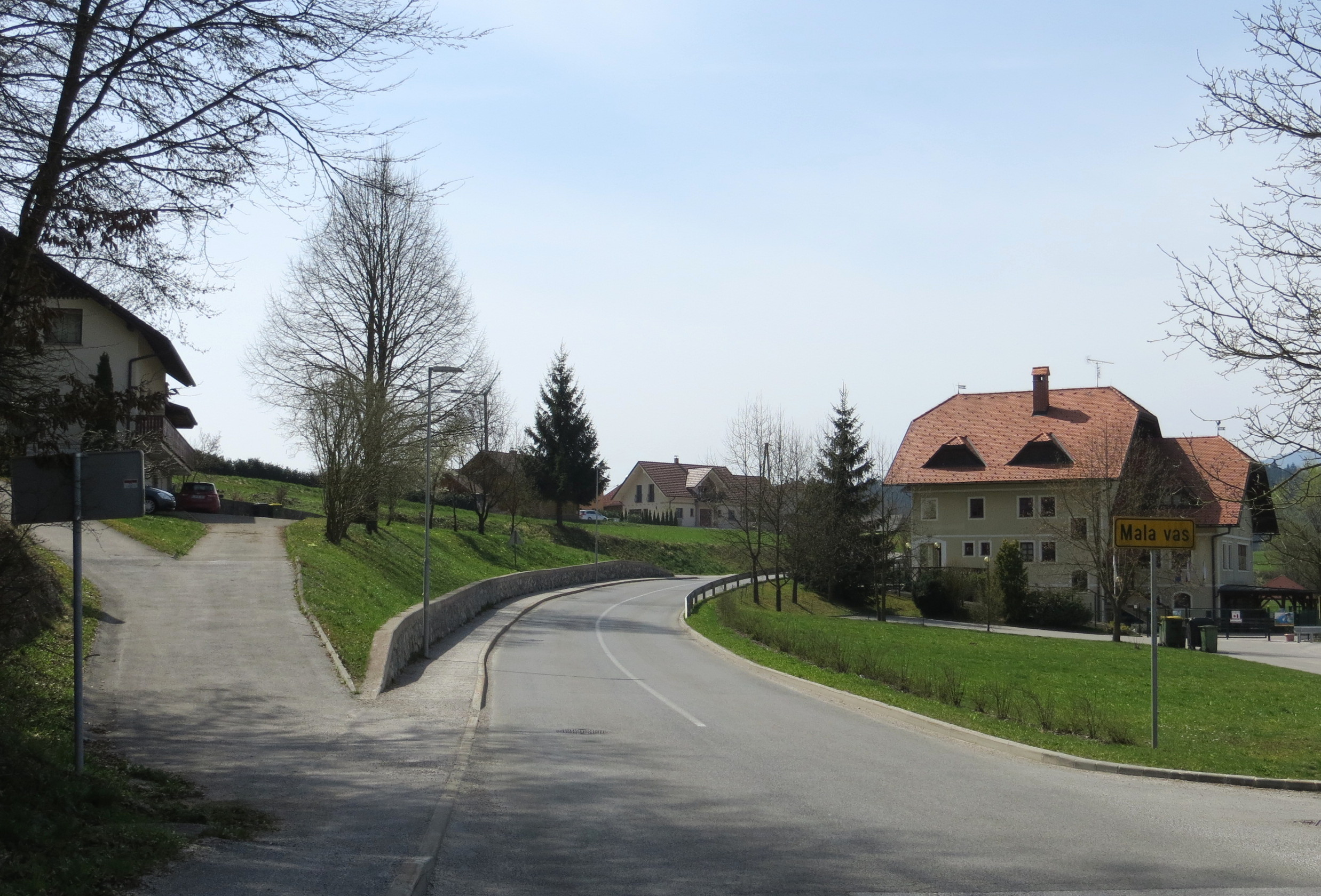 Mala Vas pri Grosupljem, Municipality of Grosuplje, Slovenia